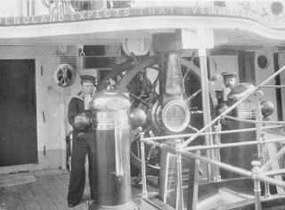 HMS Calliope, a Calypso class cruiser, showing wheel at aft end of quarterdeck, sheltered by poop deck above. Given vantage point, may be RN and therefore offical UK government photo. Google images have been searched for provenance, unsuccessfully. Searches were made of all returns for "HMS Calliope".